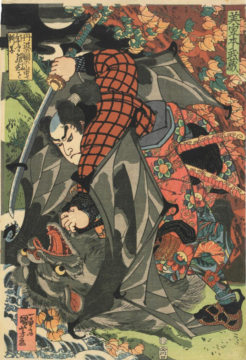 Miyamoto Musashi kills a monstrous bat in the mountains of Tanba Province. Ukiyo-e (woodblock print).